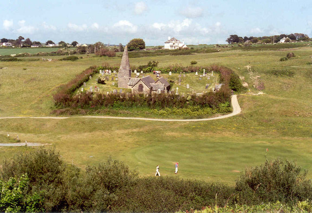 View from Brea Hill to St. Enodoc Church. View from Brea Hill. This view shows the box hedge round the church to its advantage, and the path across the Golf Course.